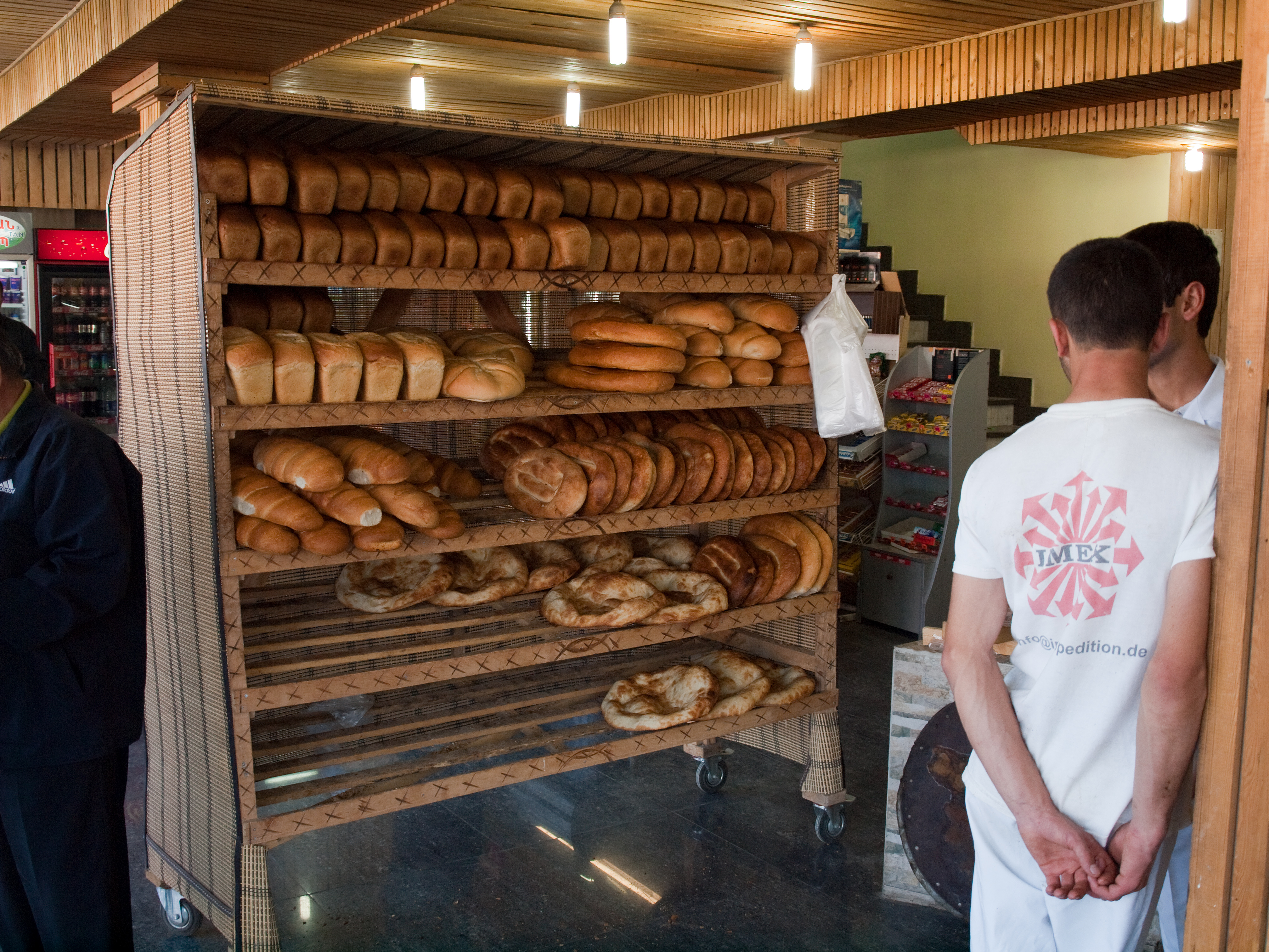 Armenia - Day 3 - 20 September 2010